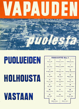 Finnish election poster from 1953, urging people to vote for the National Coalition Party.